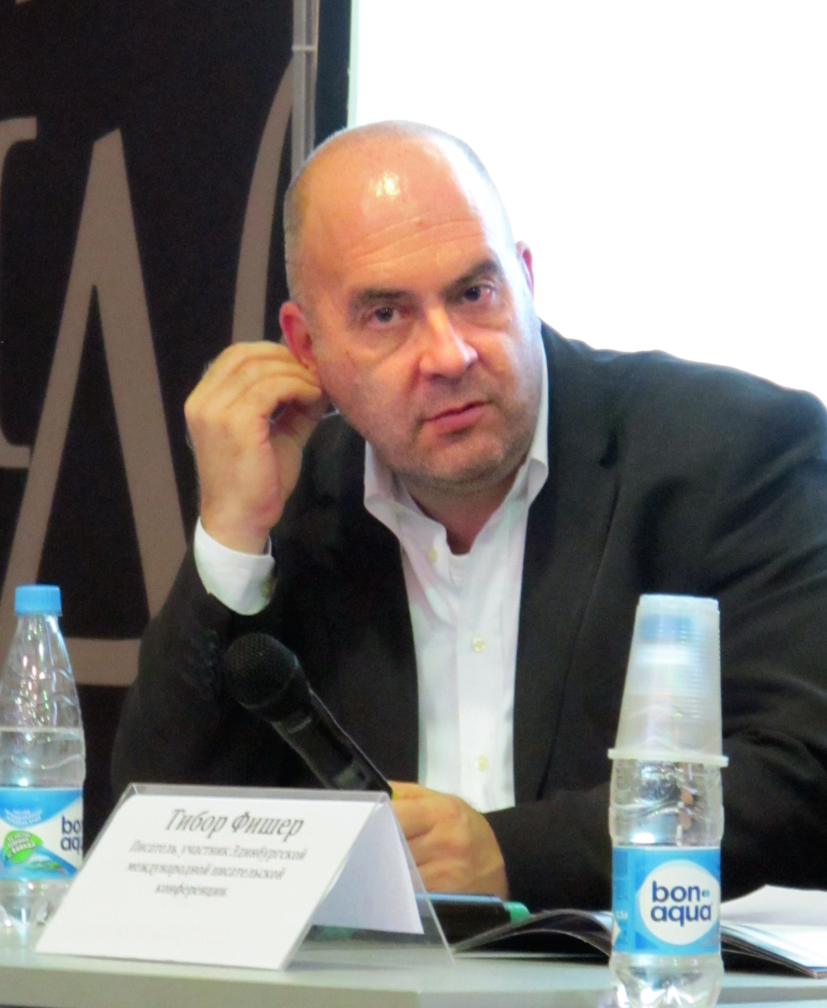 English writer Tibor Fischer (b. 1959) at Krasnoyarsk Bookfair